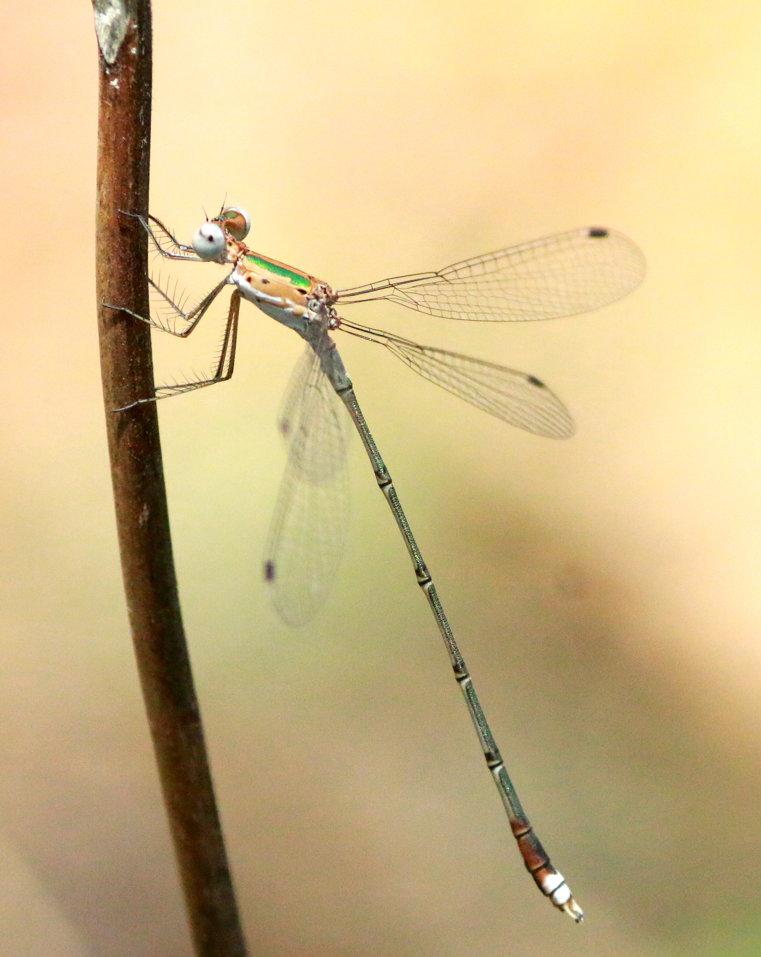 പച്ച ചേരാച്ചിറകൻ emerald spreadwing (ശാസ്ത്രീയനാമം: Lestes elatus)february 2020,Koottanad, Palakkad